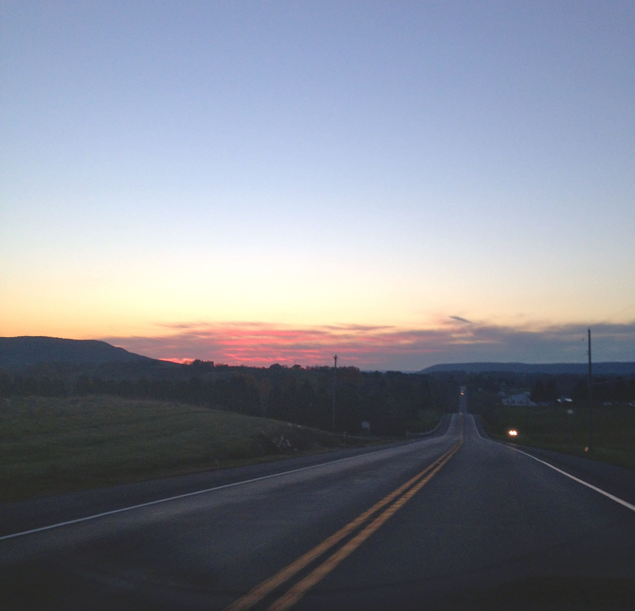 Sunset over US322 north of Potters Mills, PA